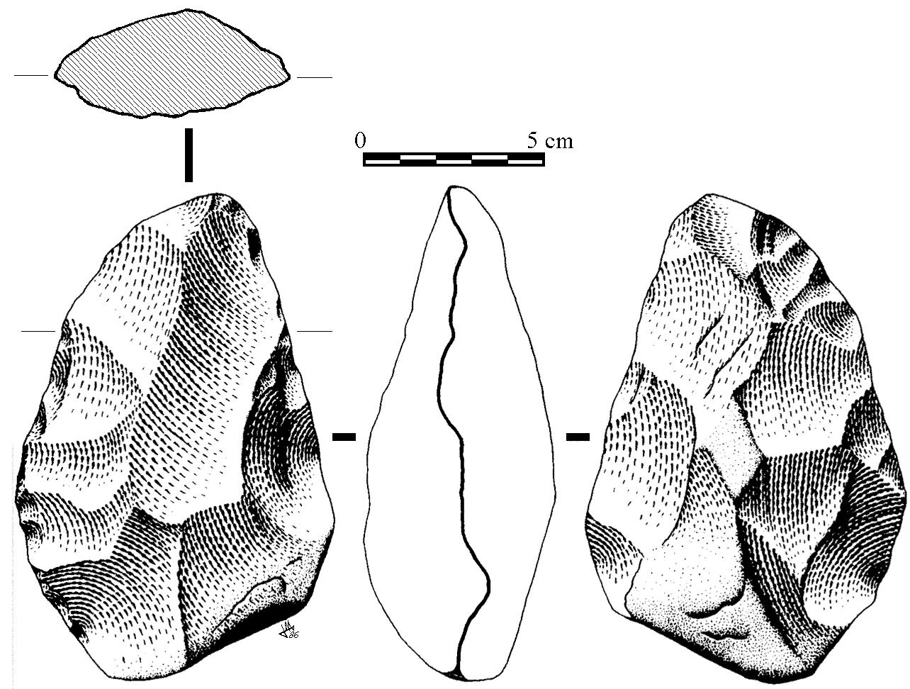 Acheulean hand axe that proceeds from a superficial site in the Salamanca province (Spain), in the valley Águeda river, tributary of Douro river.